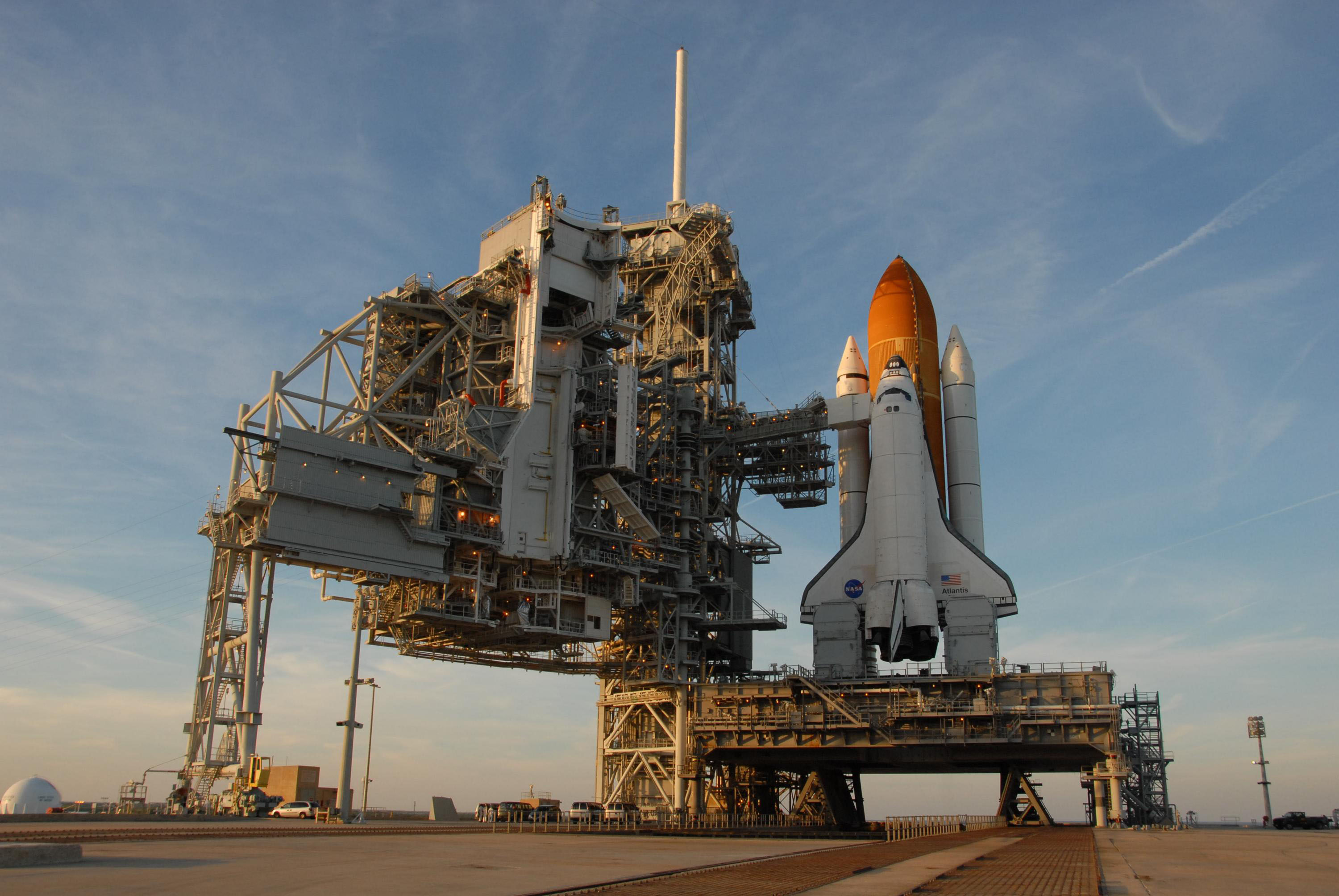 Space Shuttle Atlantis preparing for takeoff, which is scheduled for December 8, 2007. Original caption: Image above: Space shuttle Atlantis stands on Launch Pad 39A at NASA's Kennedy Space Center in Florida. Photo credit: NASA/George Shelton